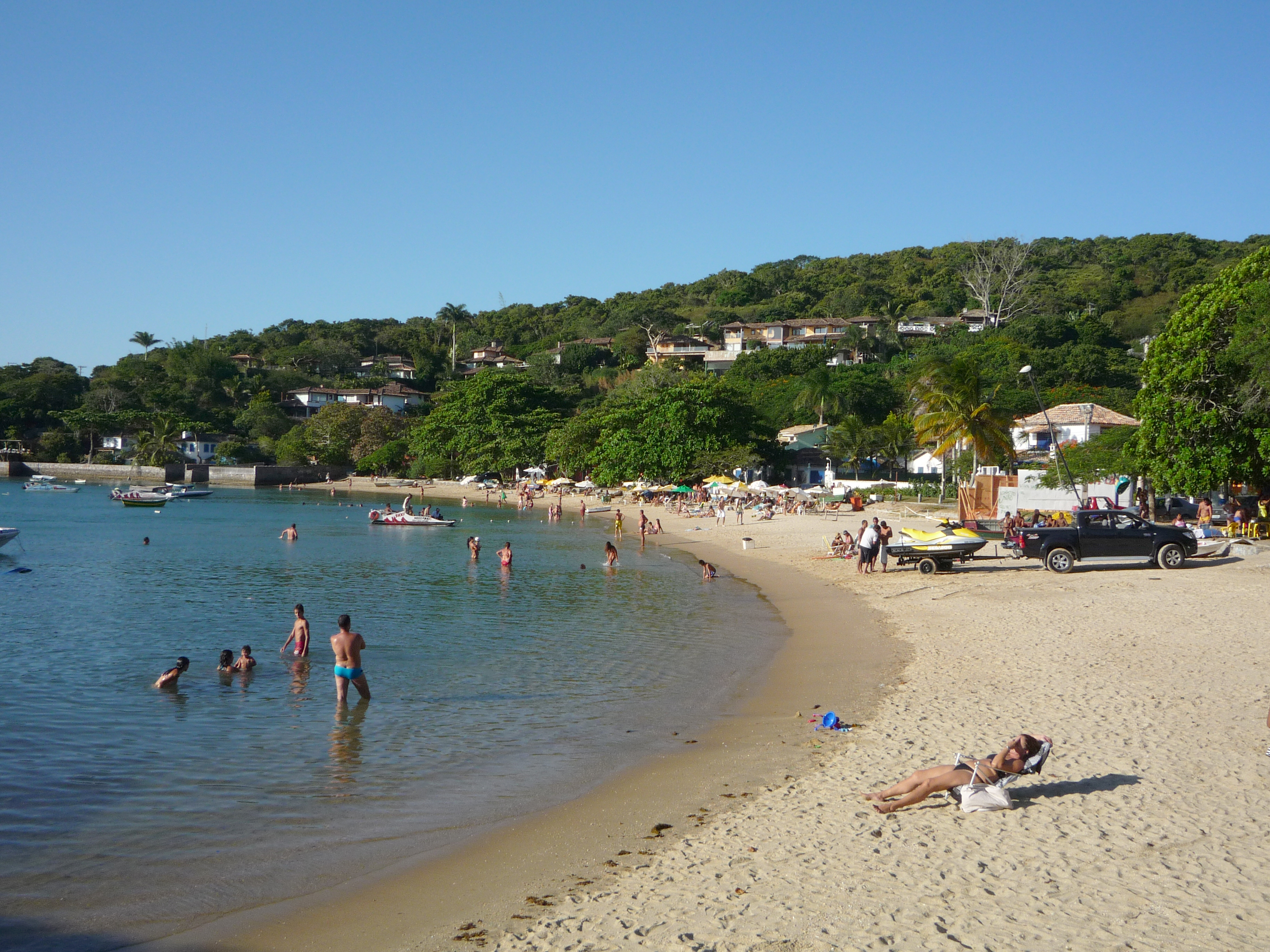 Ossos Beach in Búzios, Brazil